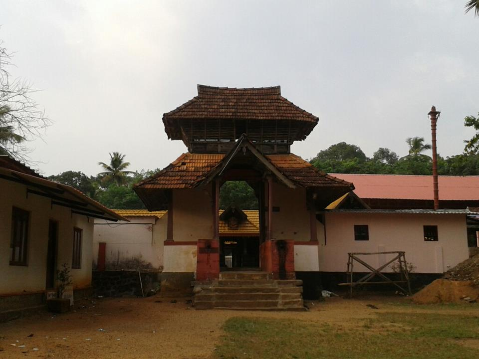 gopuranada